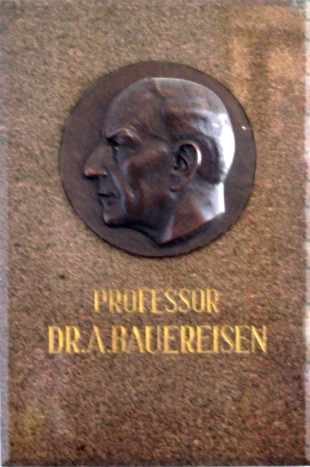 Johann Adam Bauereisen (1875-1961), German gynaecologist and obstetrician